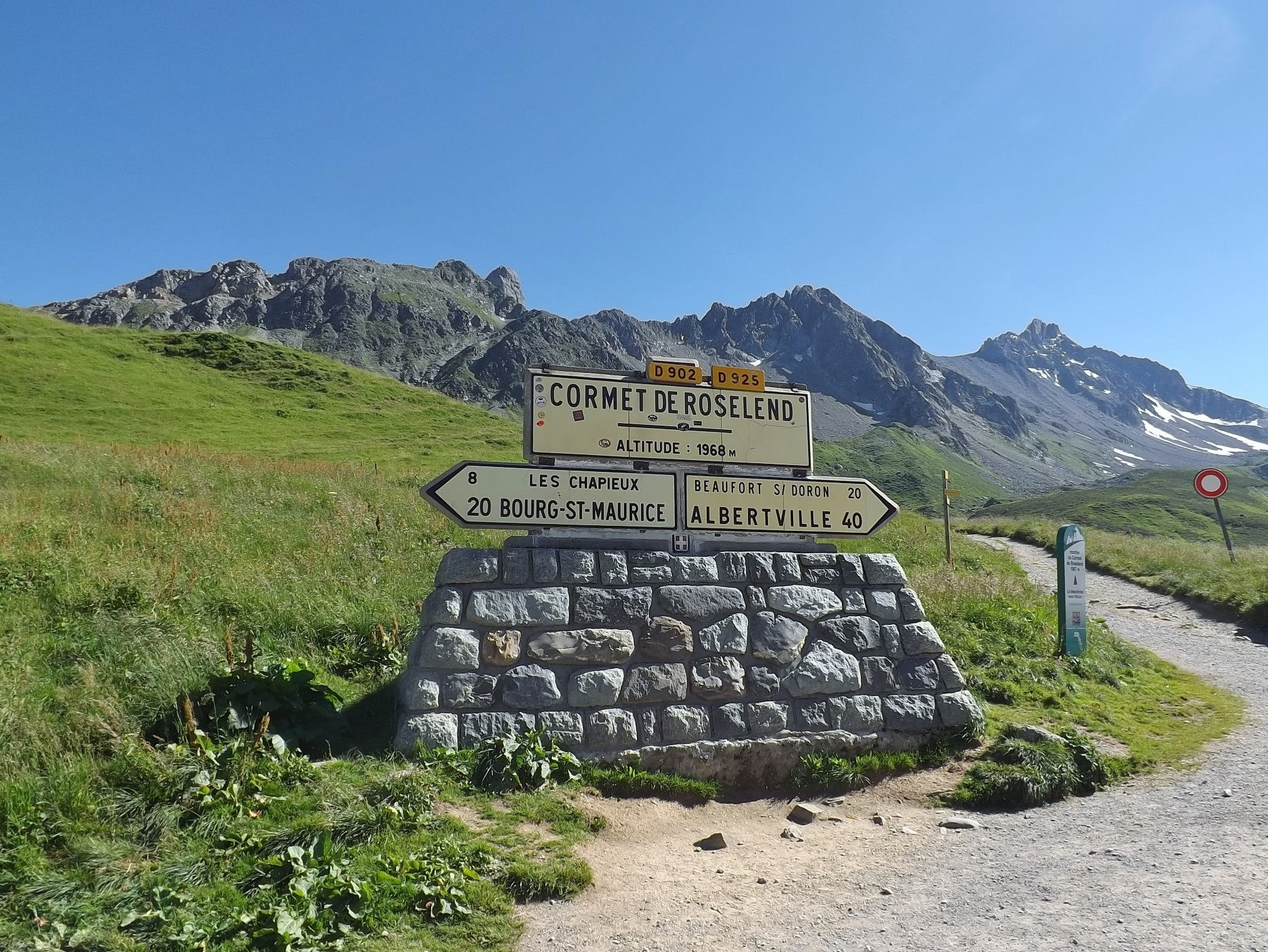 Sight of the Cormet de Roselend roadsign (1 968 meters high), in Savoie, France.